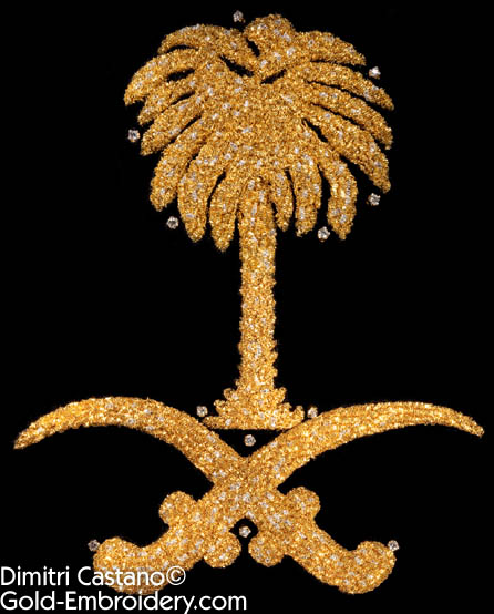 “Emblem of the Kingdom of Saudi Arabia” (November 2010)